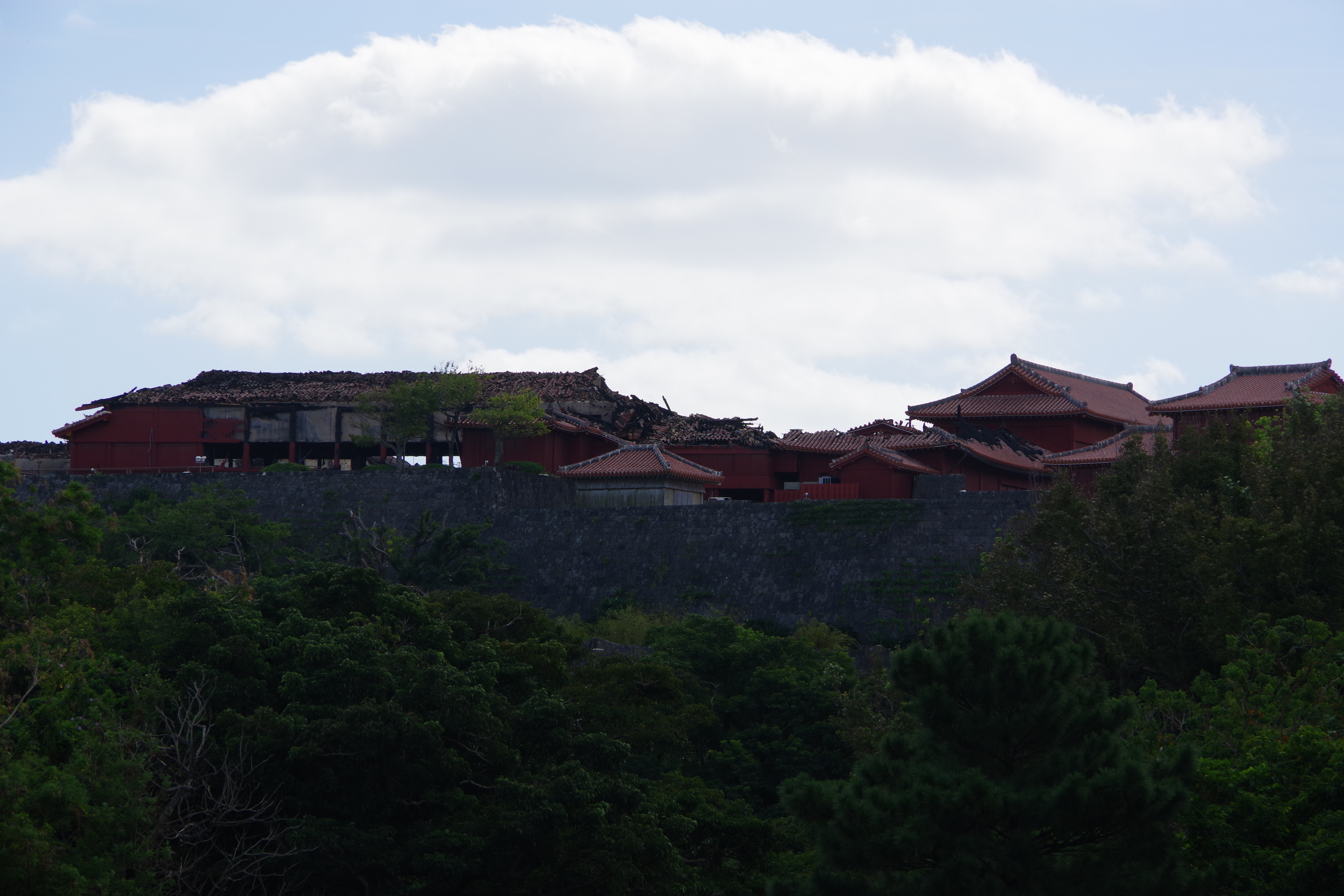 Shiri Castle after fire seen from Ryutan